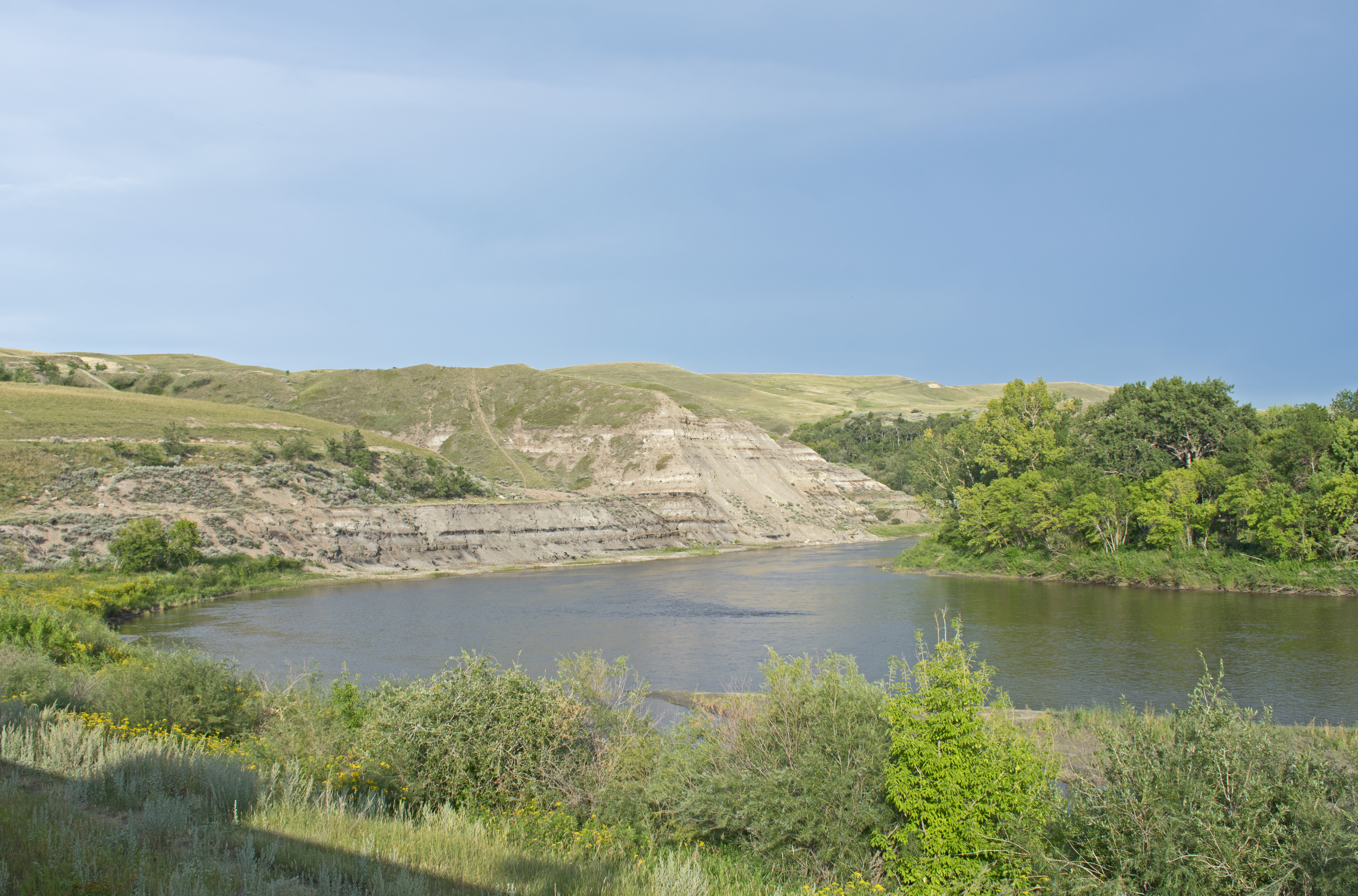 The Red Deer River in Drumheller, view downstream from Travelodge